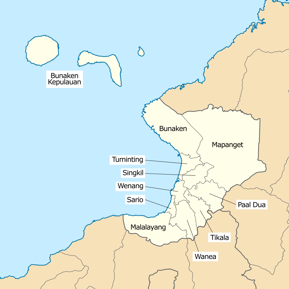 Map of sub-districts in Manado, North Sulawesi, Indonesia. Map data from tanahair.indonesia.go.id and kpu-sulutprov.go.id.